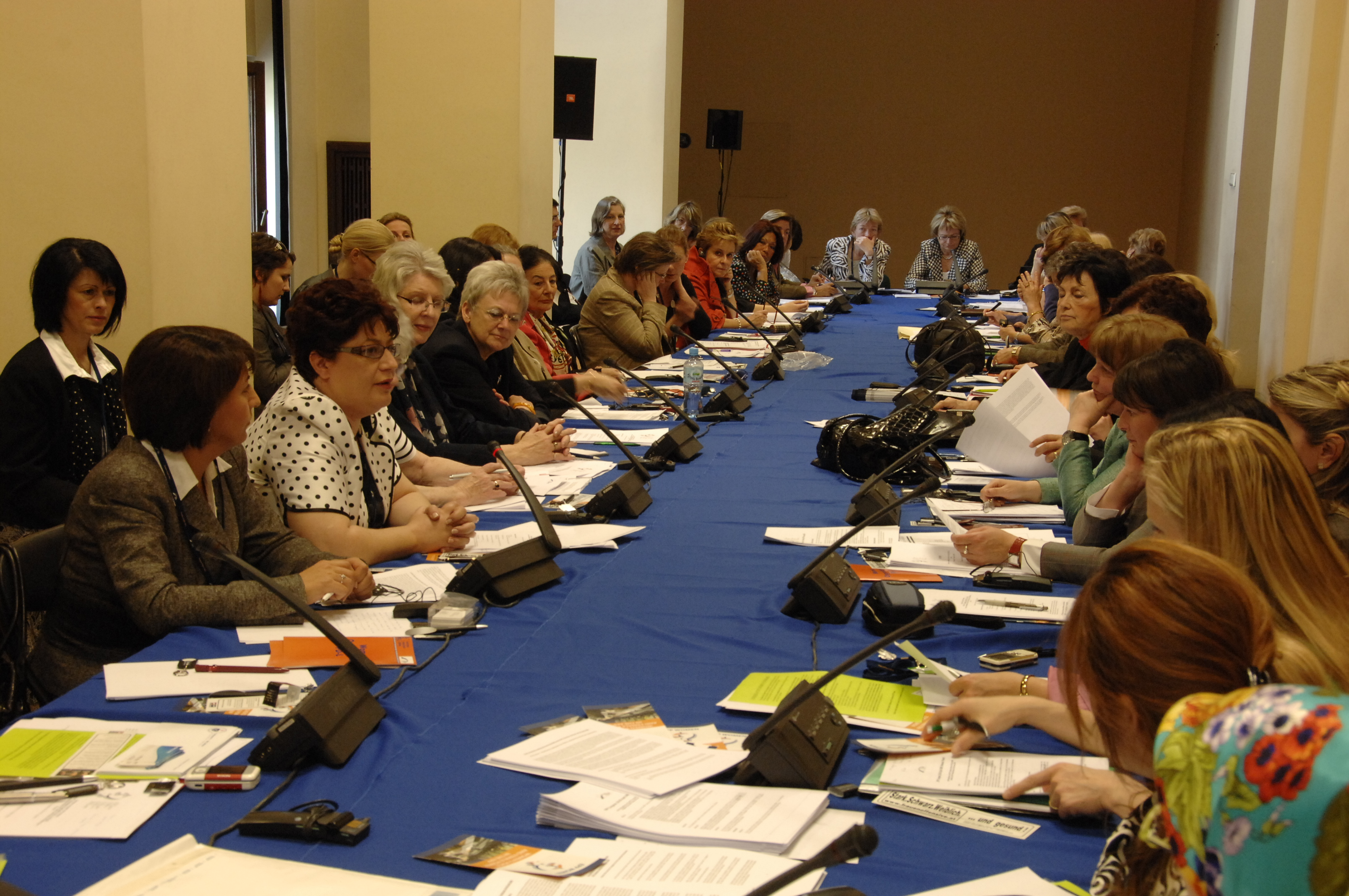 EPP Congress in Warsaw